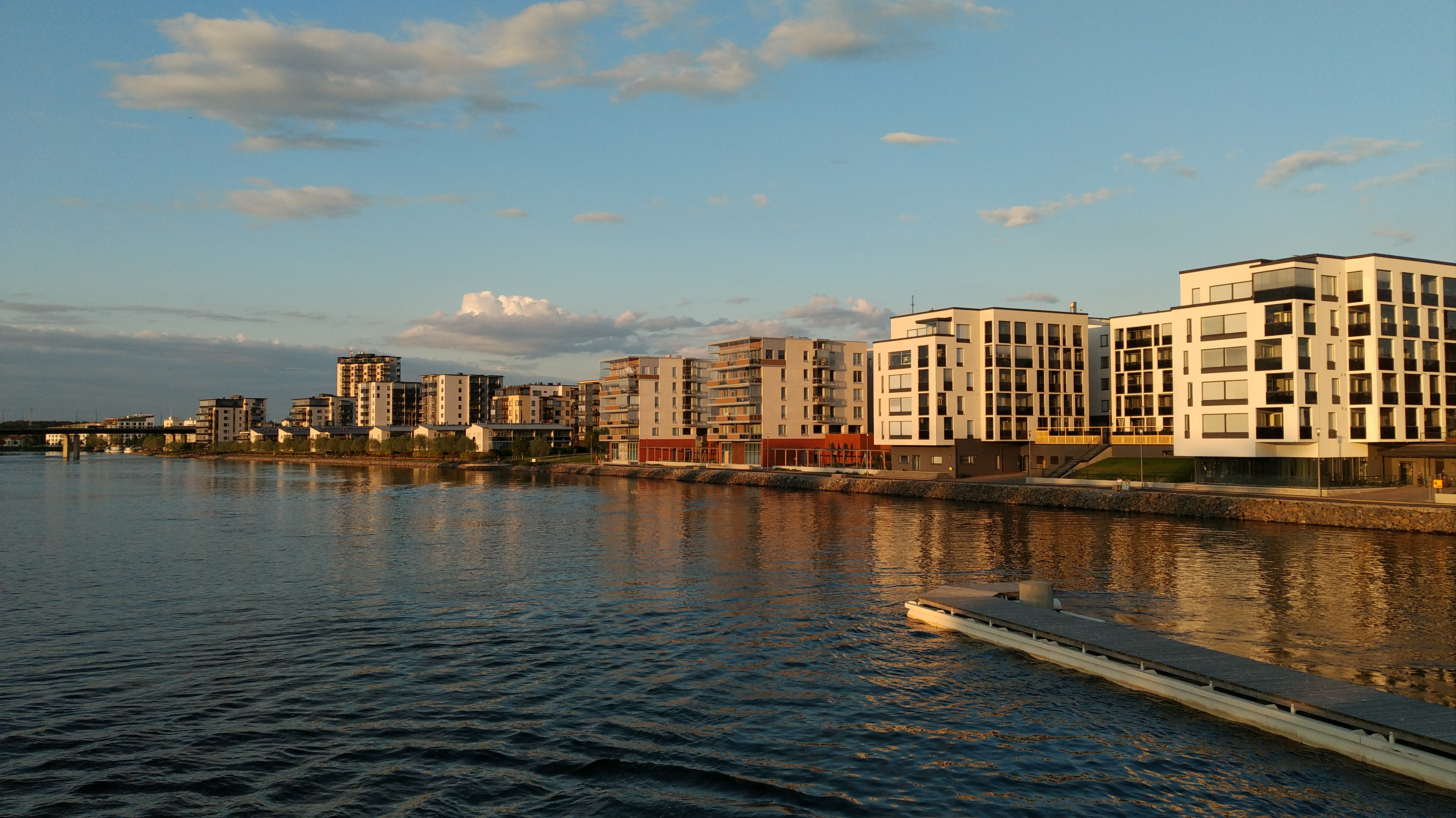 The Aittaranta part of Penttilä in Joensuu, Finland, seem from the Ylisoutajan silta bridge towards the Suvantosilta bridge.